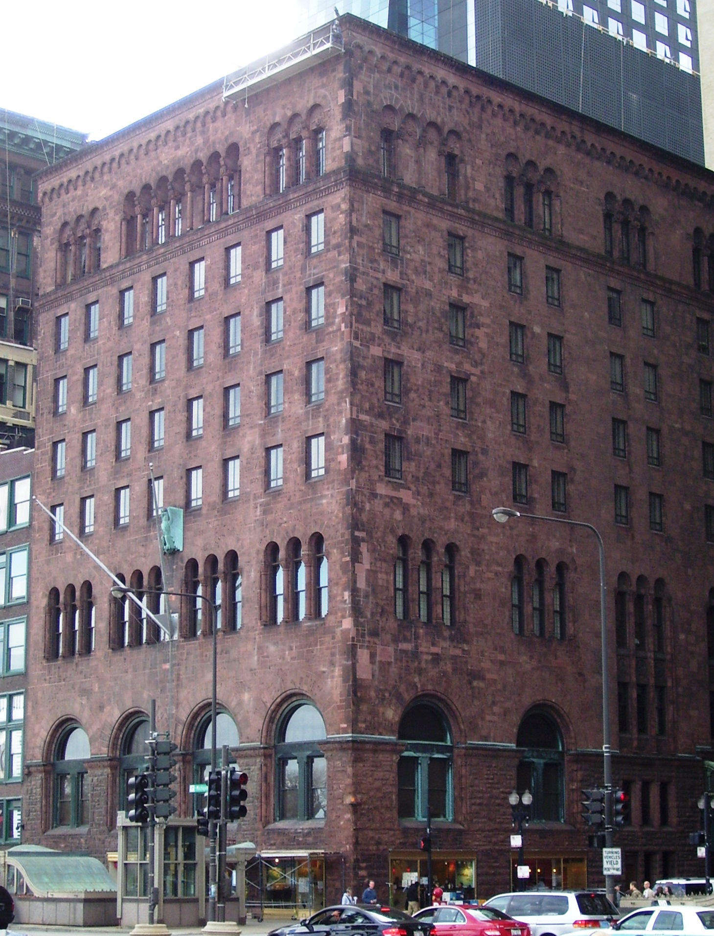 The Chicago Club building at 81 East Van Buren at Michigan Avenue in the Loop neighborhood of Chicago, Illinois was built in 1929 and was designed by Granger and Bollenbacher. The building previously on the site has been constructed in 1886-87 by Burnham & Root as the original home of the Art Institute of Chicago. When the Institute moved across the street in 1892, the Chicago Club, which had had three previous clubhouses, took over that building, and used it as their clubhouse until it collapsed during remodelling in the 1920s. During construction of the new building, Burnham & Root's triple-arched entryway was moved from Michigan Avenue to Van Buren Street. This is the view of the building from north along Michigan Avenue. (Source: "About the Cub" on the Chicago Club wesbite)